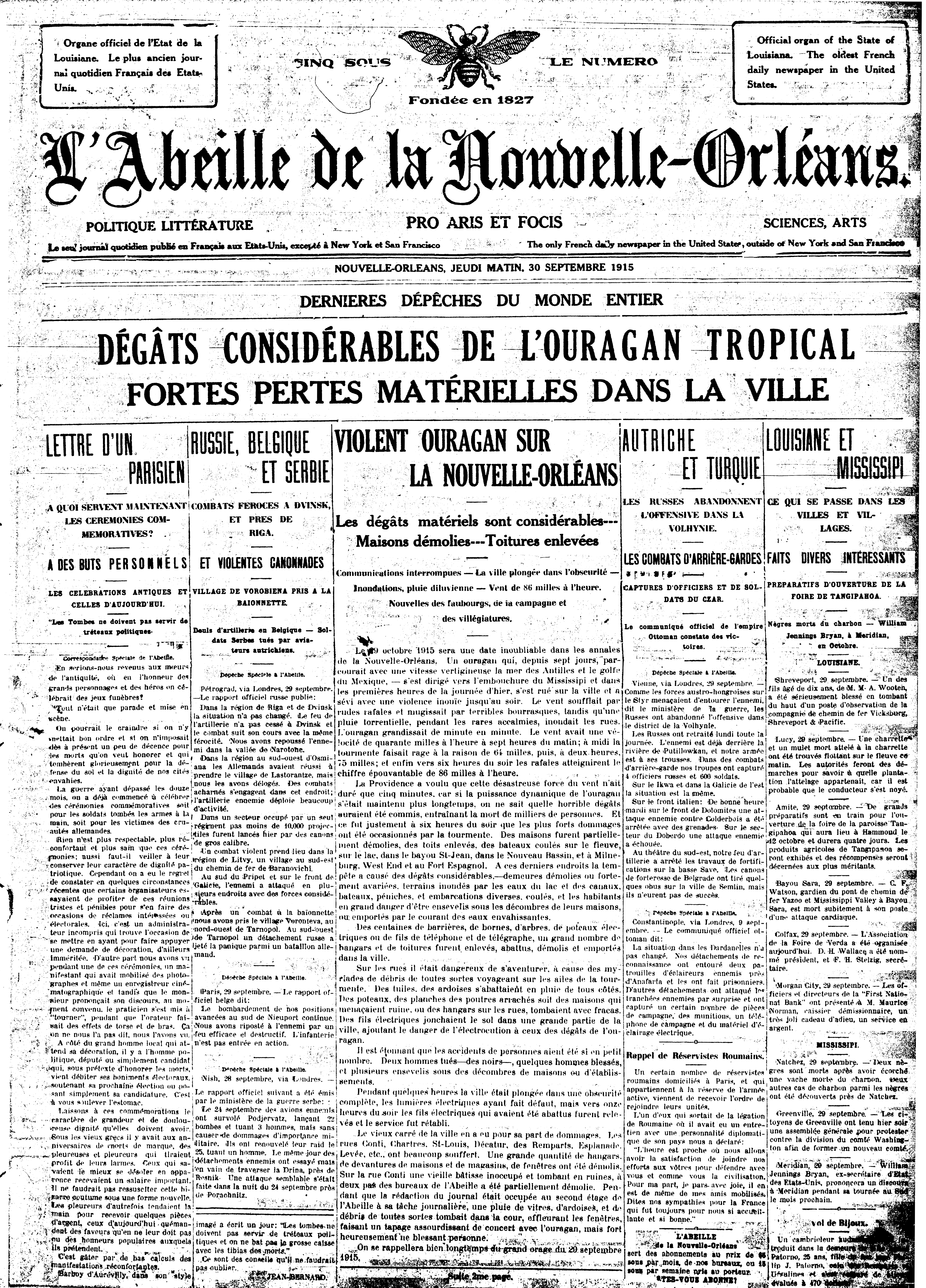 Front page for the New Orleans "Bee" newspaper of 30 September, 1915, after the Great 1915 Hurricane.